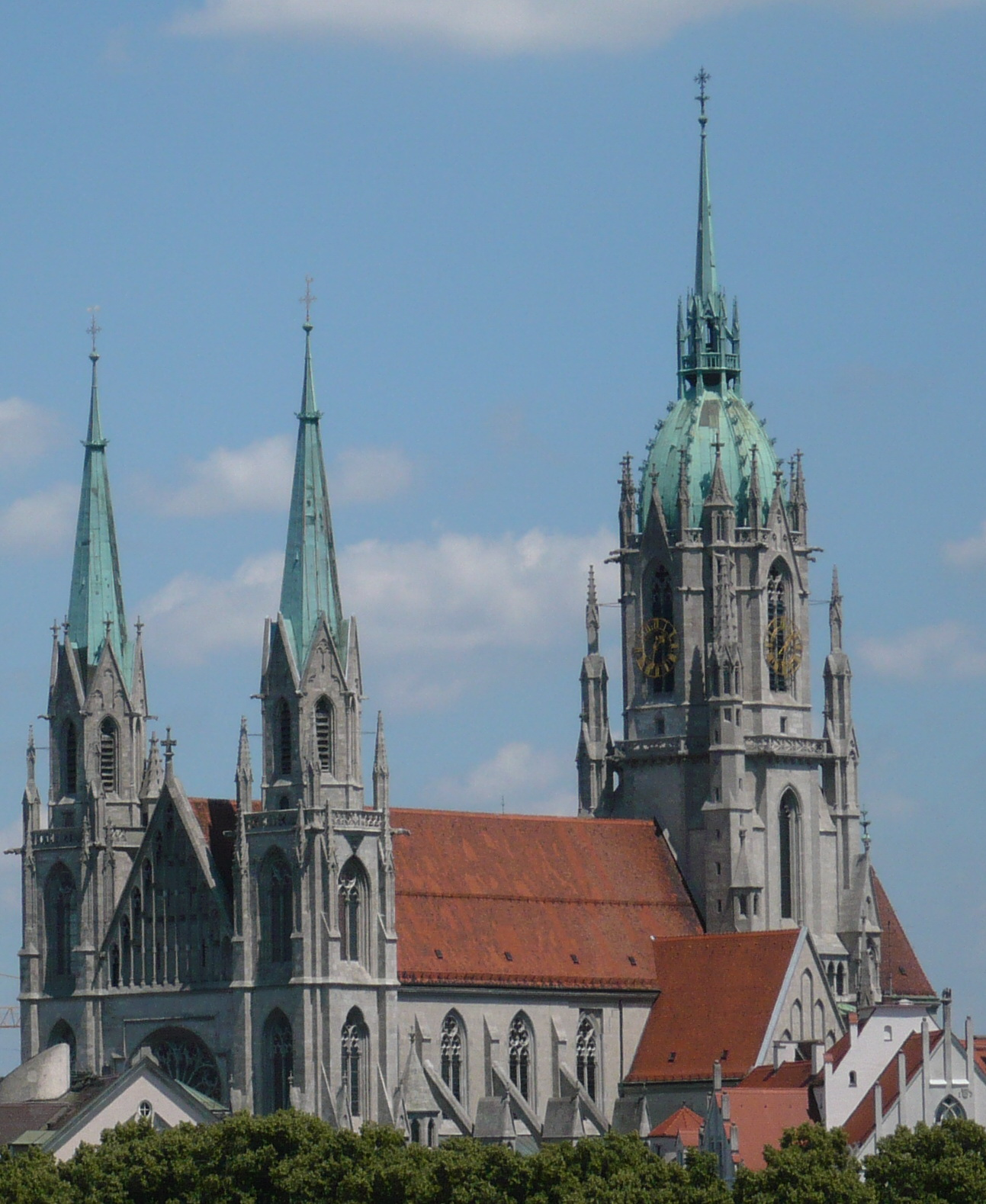 St. Paul Church in Munich